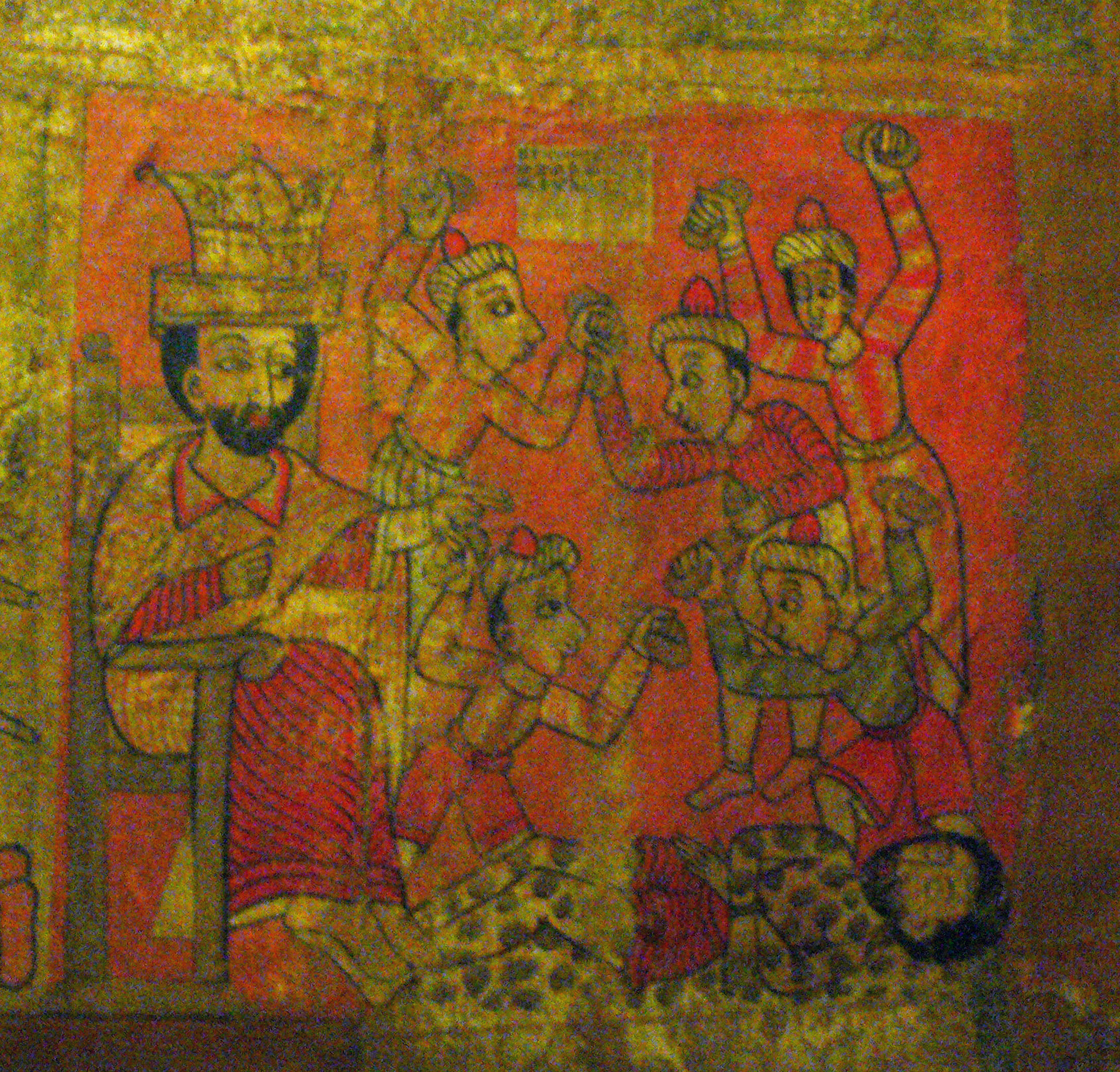 Stoning of a Christian Martyr (Martyrdom of Saint Stephen?), Ethiopian painting (end of 17th century); detail from a painting from the northern wall of the Church of Abbas Antonios, Gondar, Ethiopia Musée des Arts Premiers (Musée du quai Branly), Paris; N° inventaire : 71.1931.74.3593